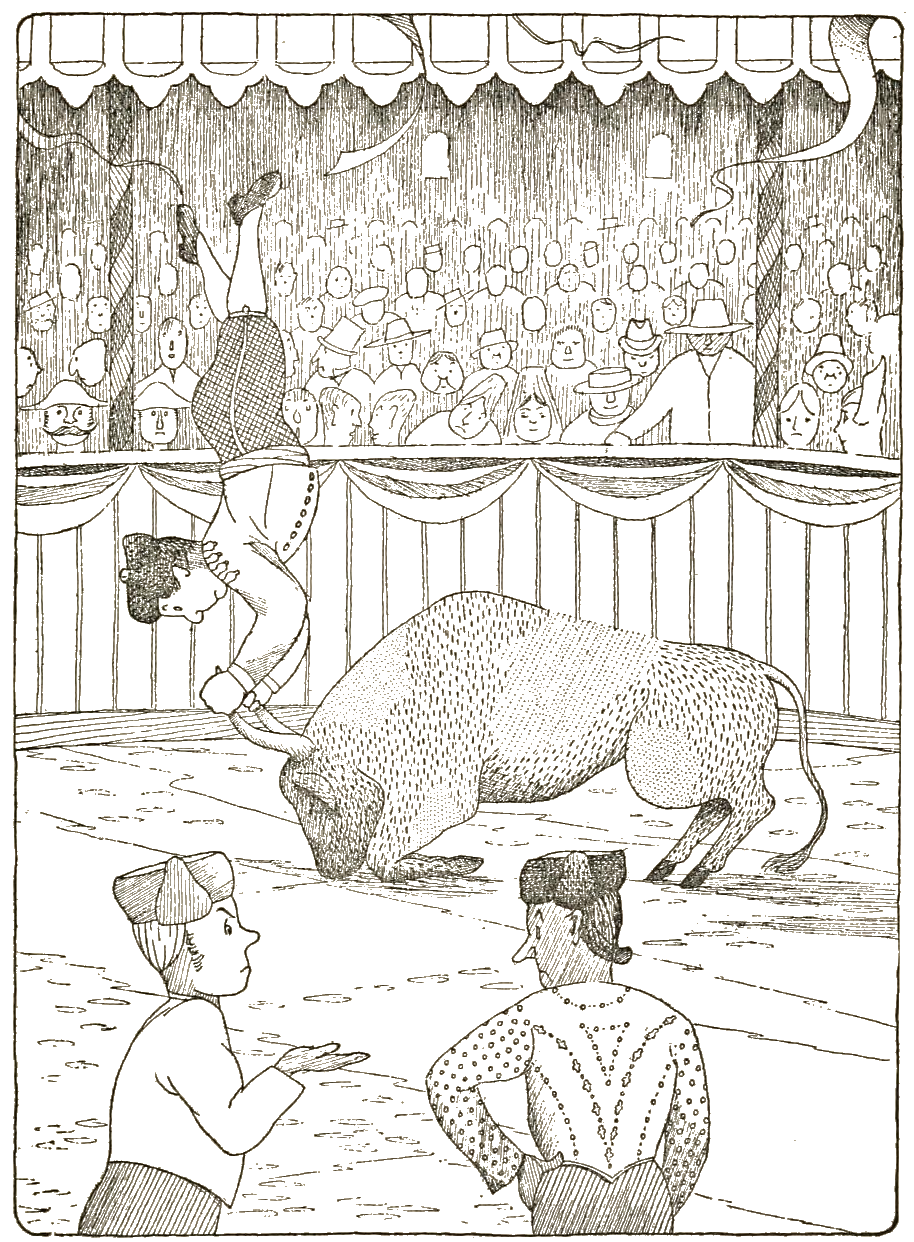 png of image on page 189 of File:The Voyage of Doctor Dolittle.djvu